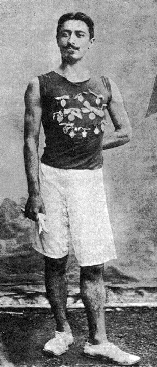 Vahram Papazian, Armenian athlete from the Ottoman Empire, who participated in the 1912 Stockholm Olympics.